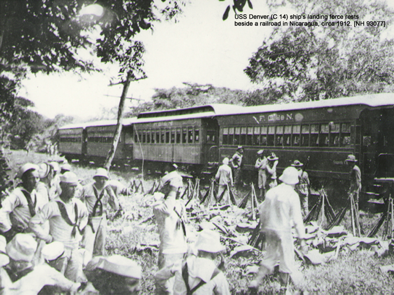 Landing force from USS Denver in Nicaragua in 1912 beside a railroad [NH 93077]